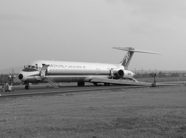 JAS Flight 979 wreckage